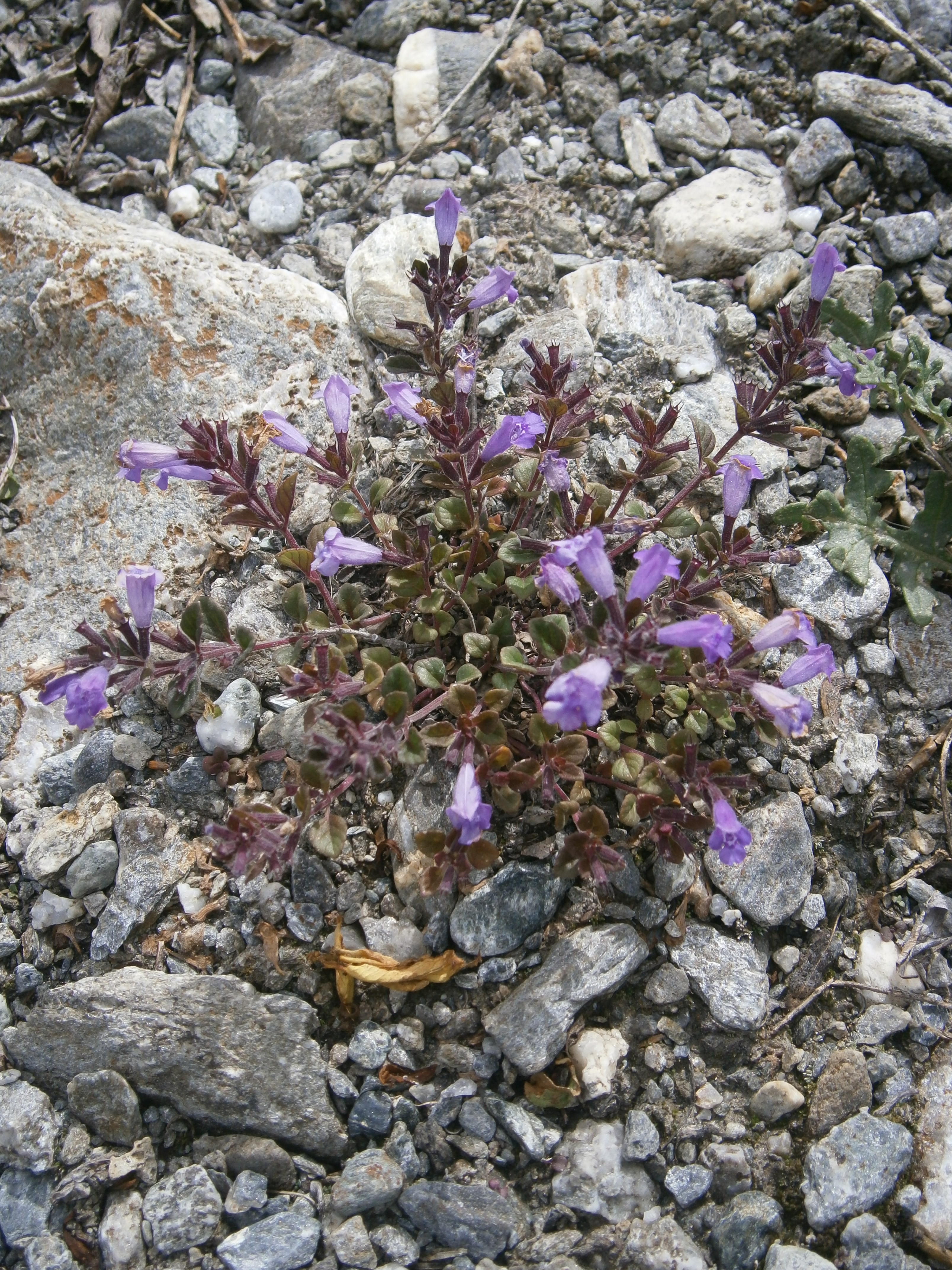 Calamintha alpina